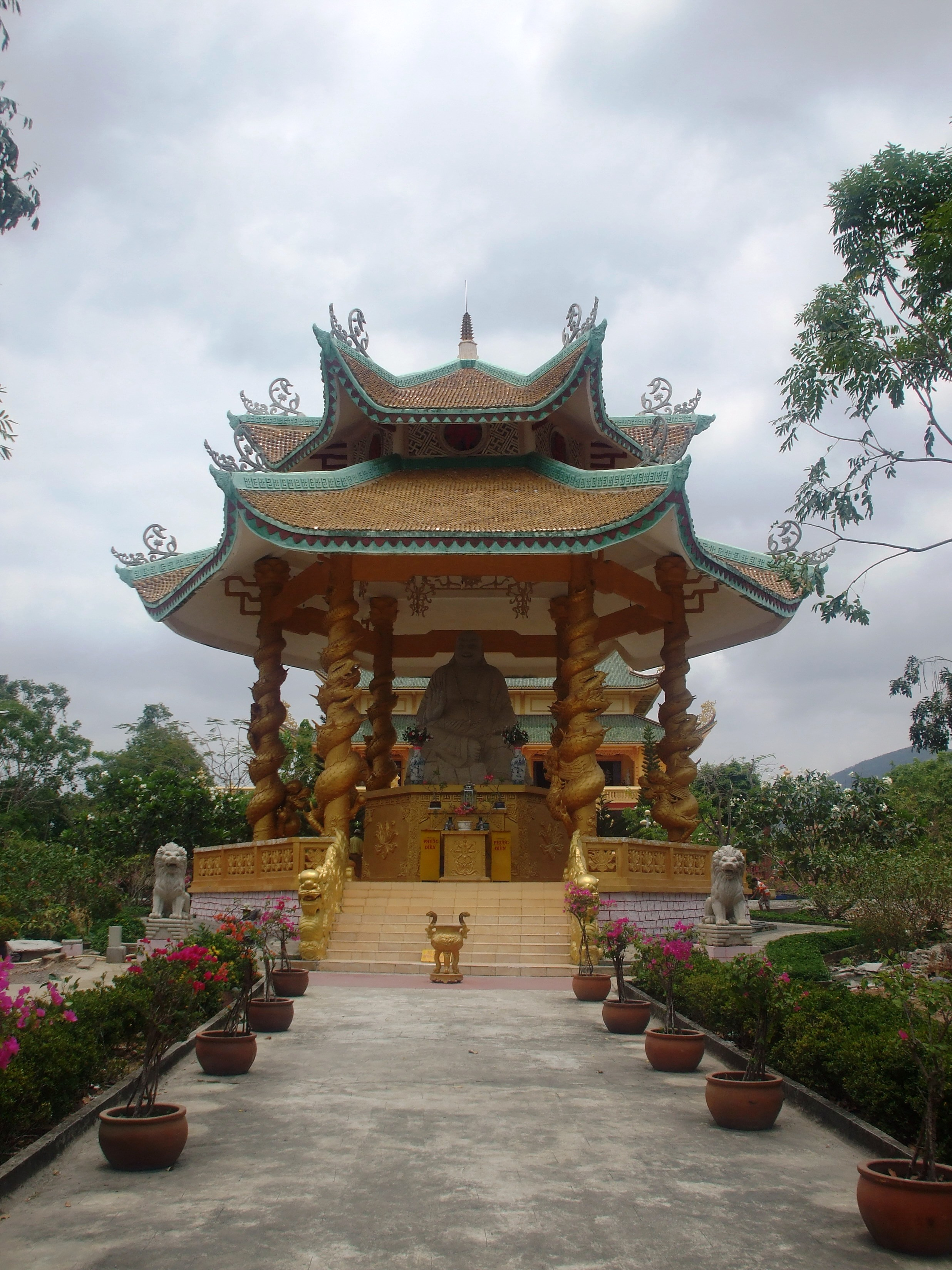 Vietnamese Buddhist temple pavilion — with Buddhist statue. In temple's garden — Việt Nam.